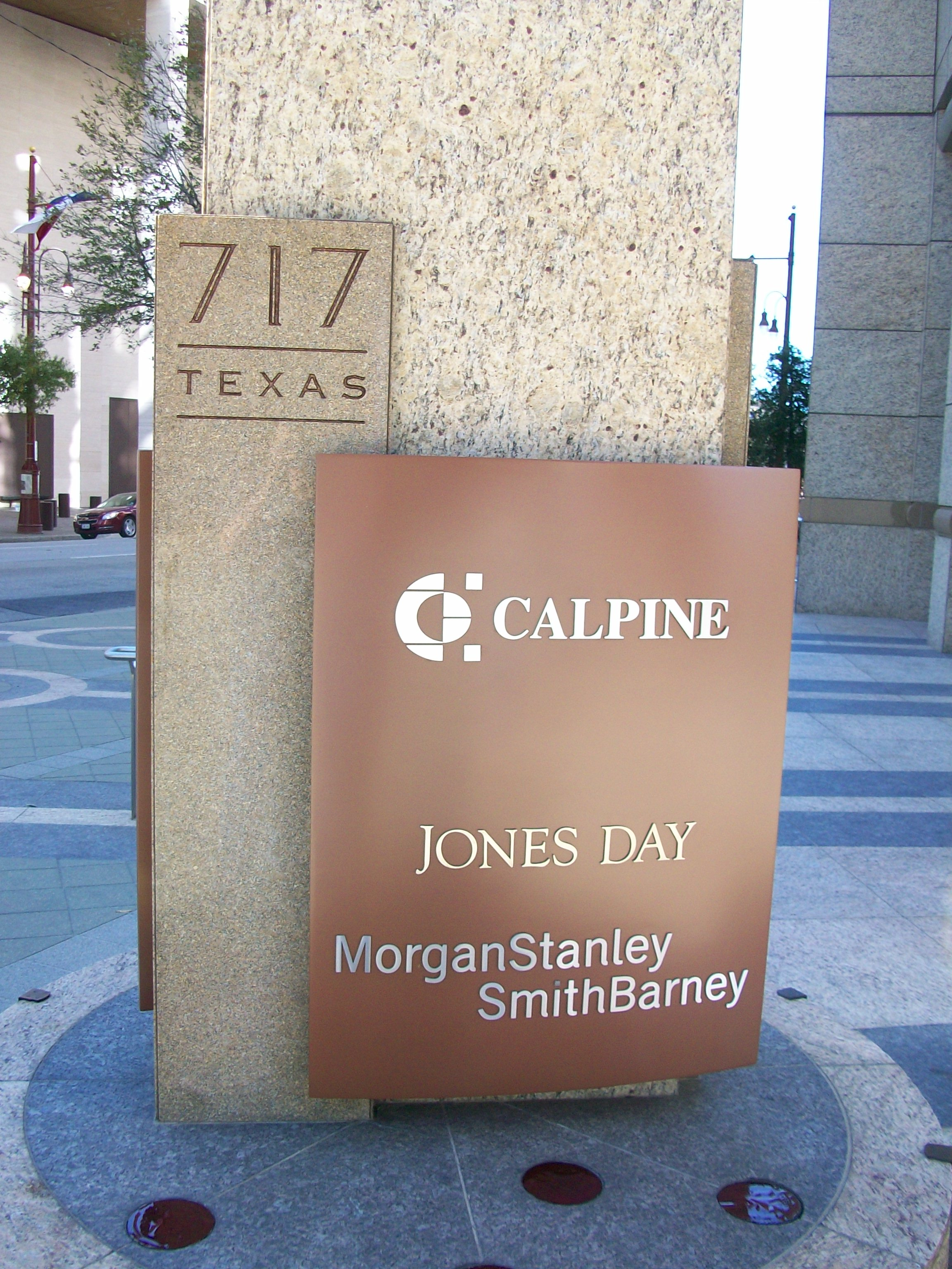 Building marker on the corner of Milam St. and Texas St., showing current major occupants (as of the date of this photo: Calpine, Jones Day, MorganStanley SmithBarney.